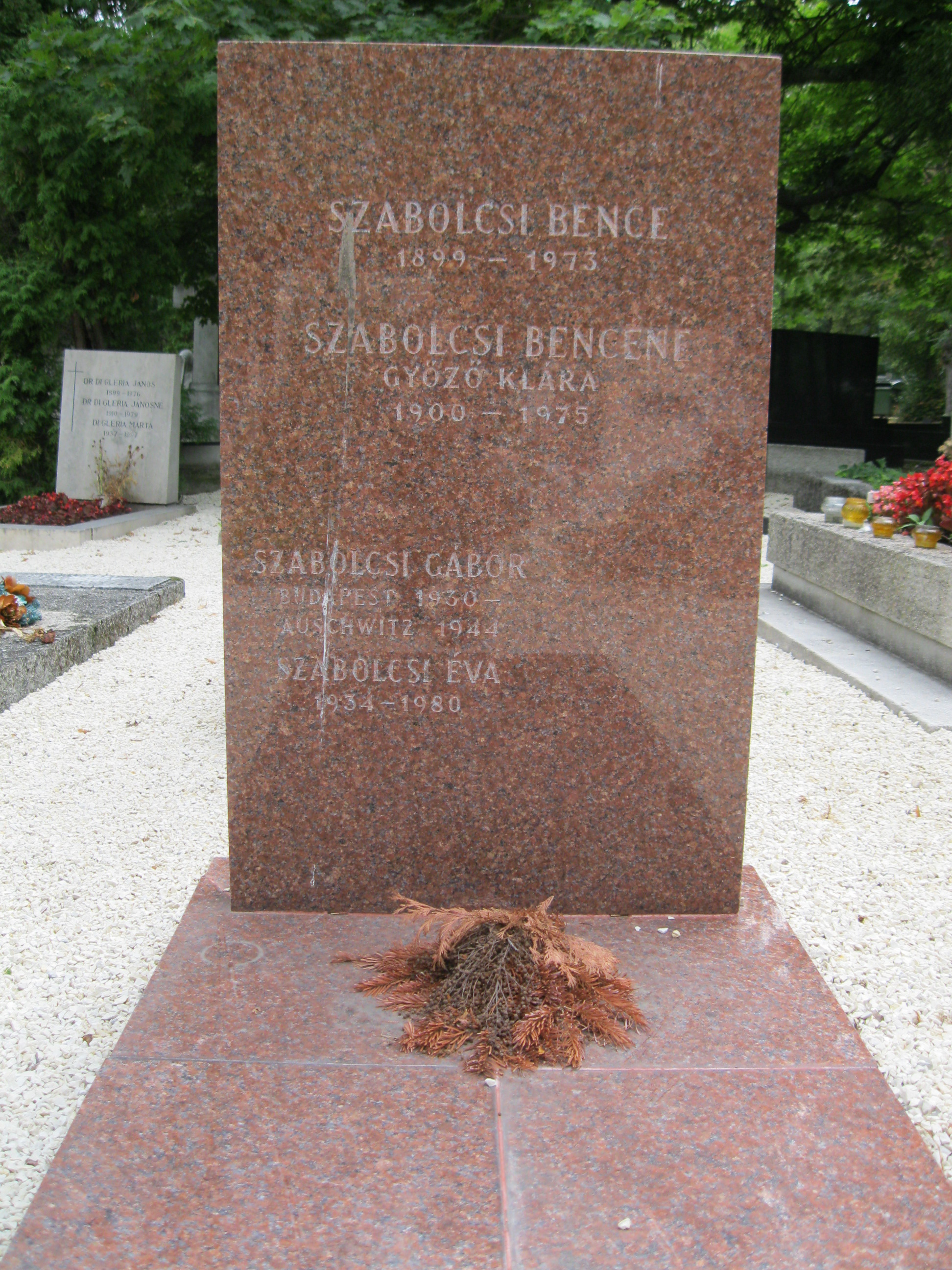 Tomb of Bence Szabolcsi in Farkasréti Cemetery [6/1-1-51]